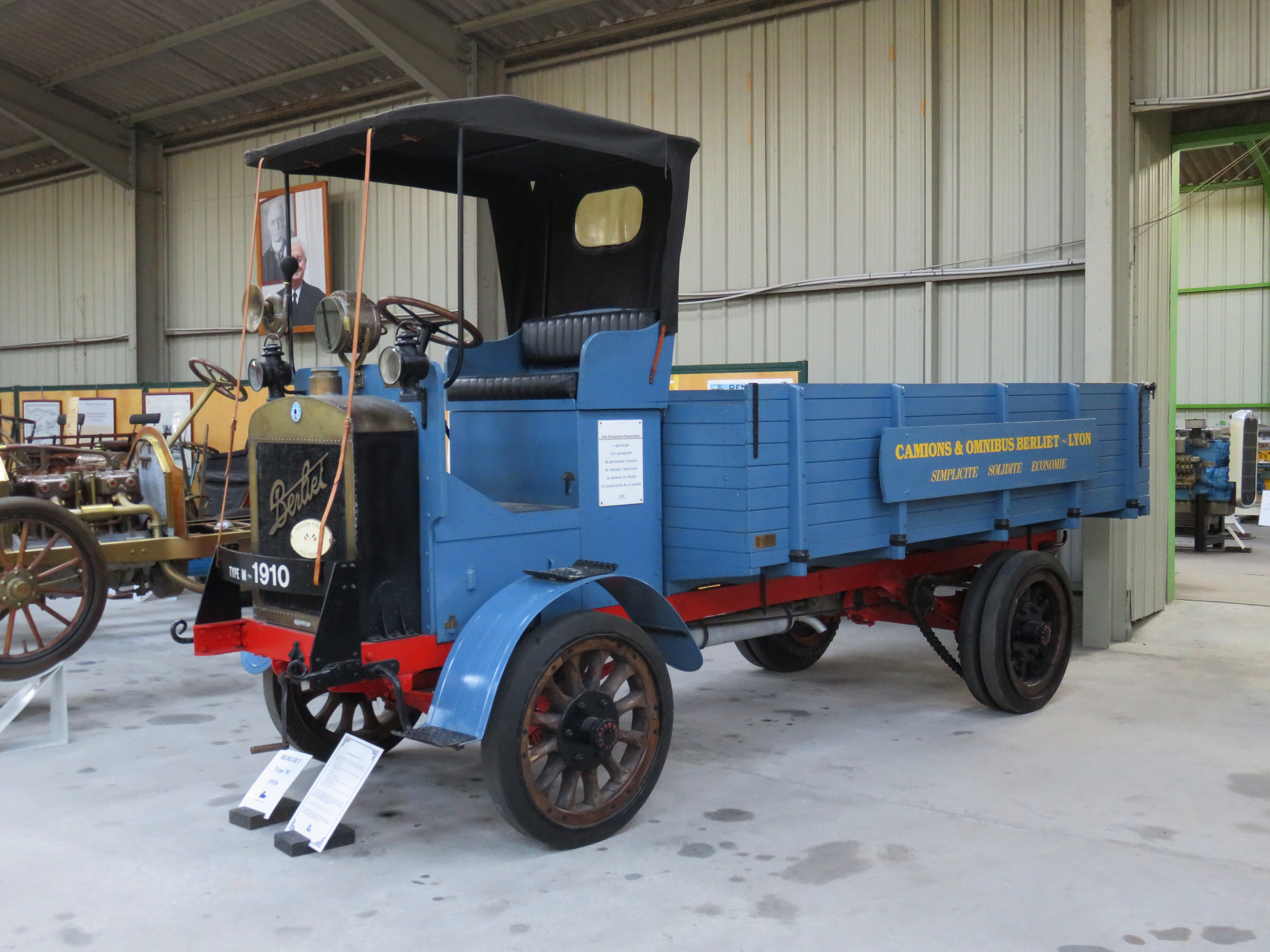 A Berliet 22 HP type M conserved at the Fondation Marius Berliet (Le Montellier, France) on October 20, 2018.